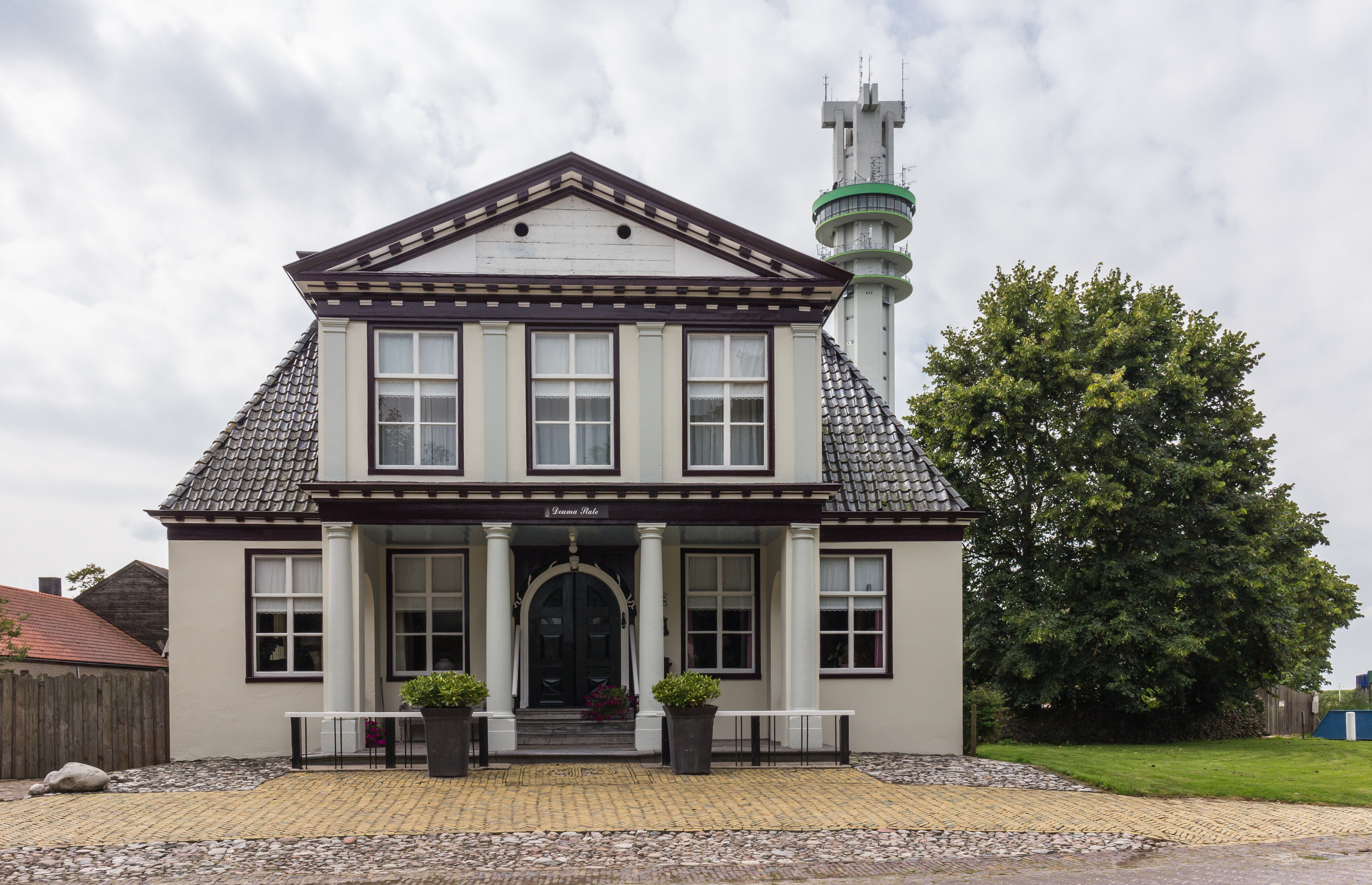 Tjerkgaast. Spannenburg (Het Wapen van Friesland) Strjitwei 5 (National Monument).